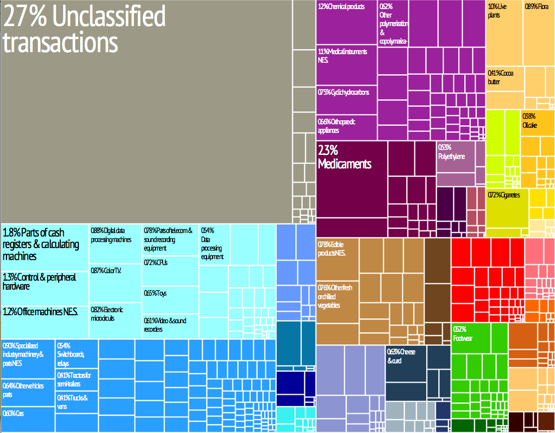 Netherlands Export Treemap from MIT Harvard Economic Observatory